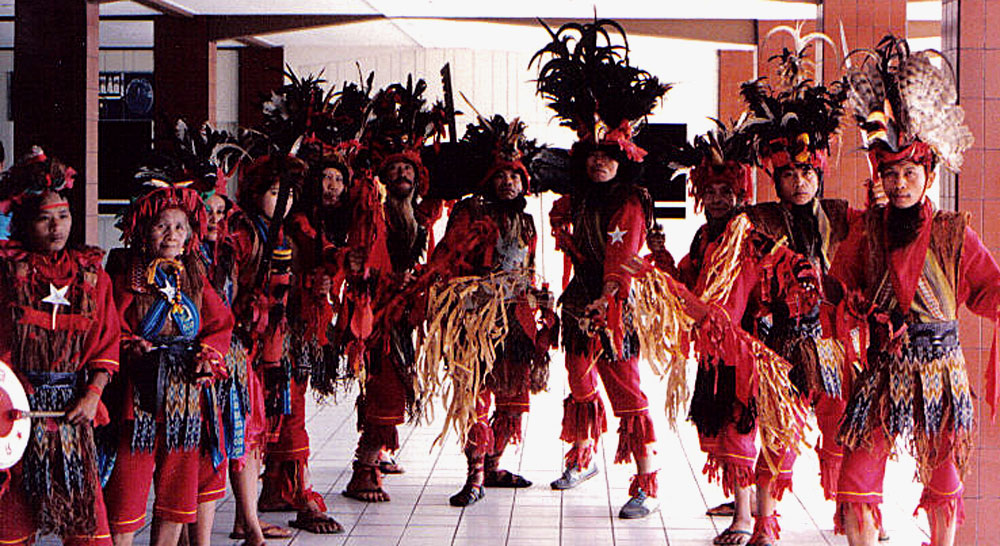 Kabasaran War Dance Group. Menado, Minahasa, Sulawesi Utara, Indonesia. Also known as Cakalele Minahasa.